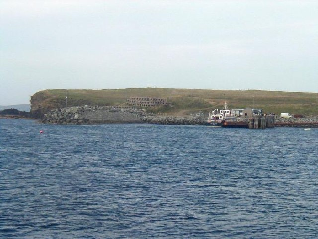 Burwick, South Ronaldsay.